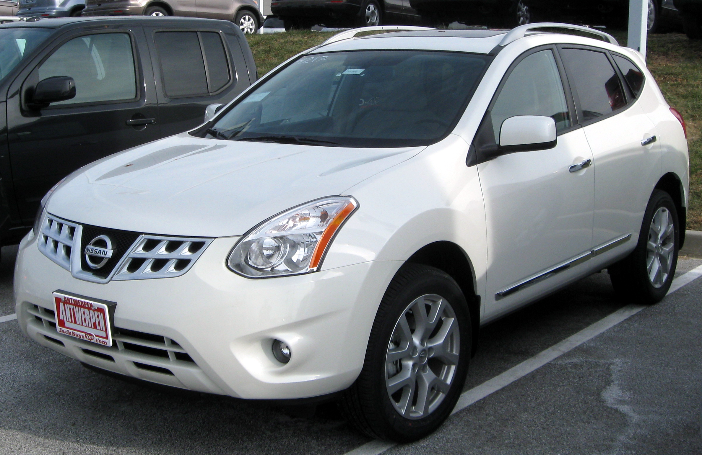 2011 Nissan Rogue photographed in Clarksville, Maryland, USA.